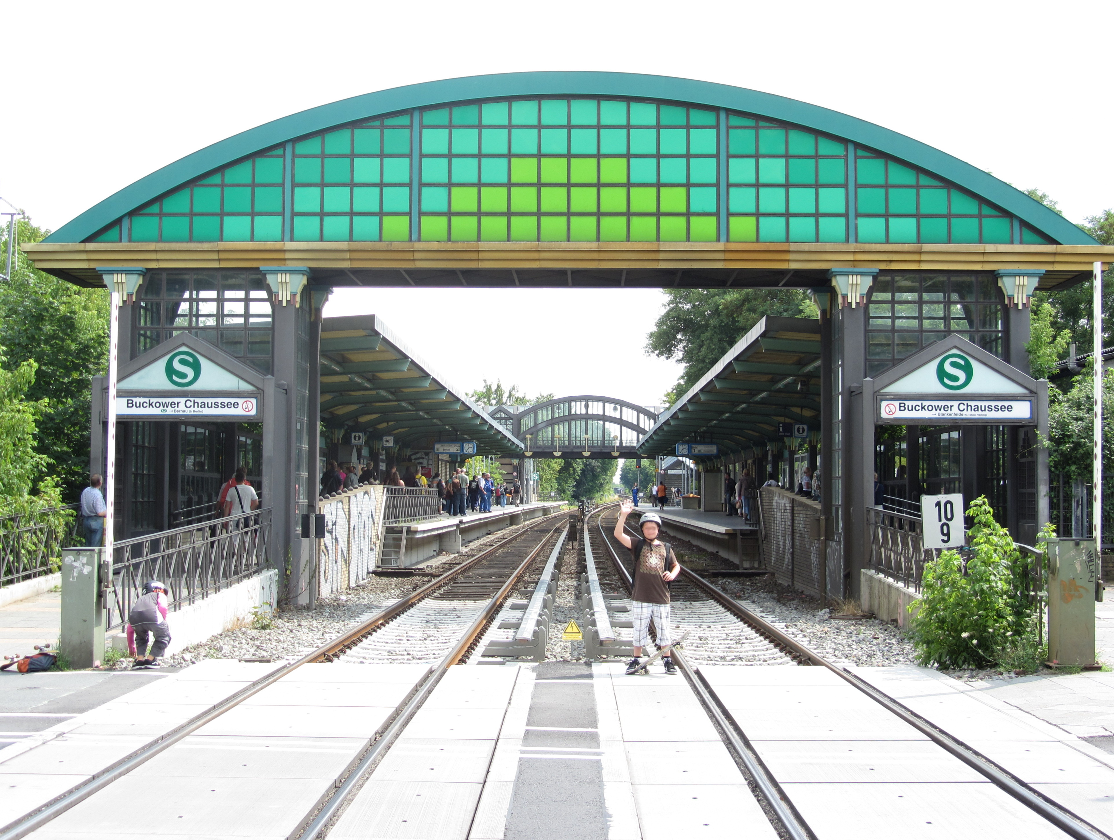 Northern entry to Berlin S-Bahn station "Buckower Chaussee", seen from the level crossing with the epinomous street